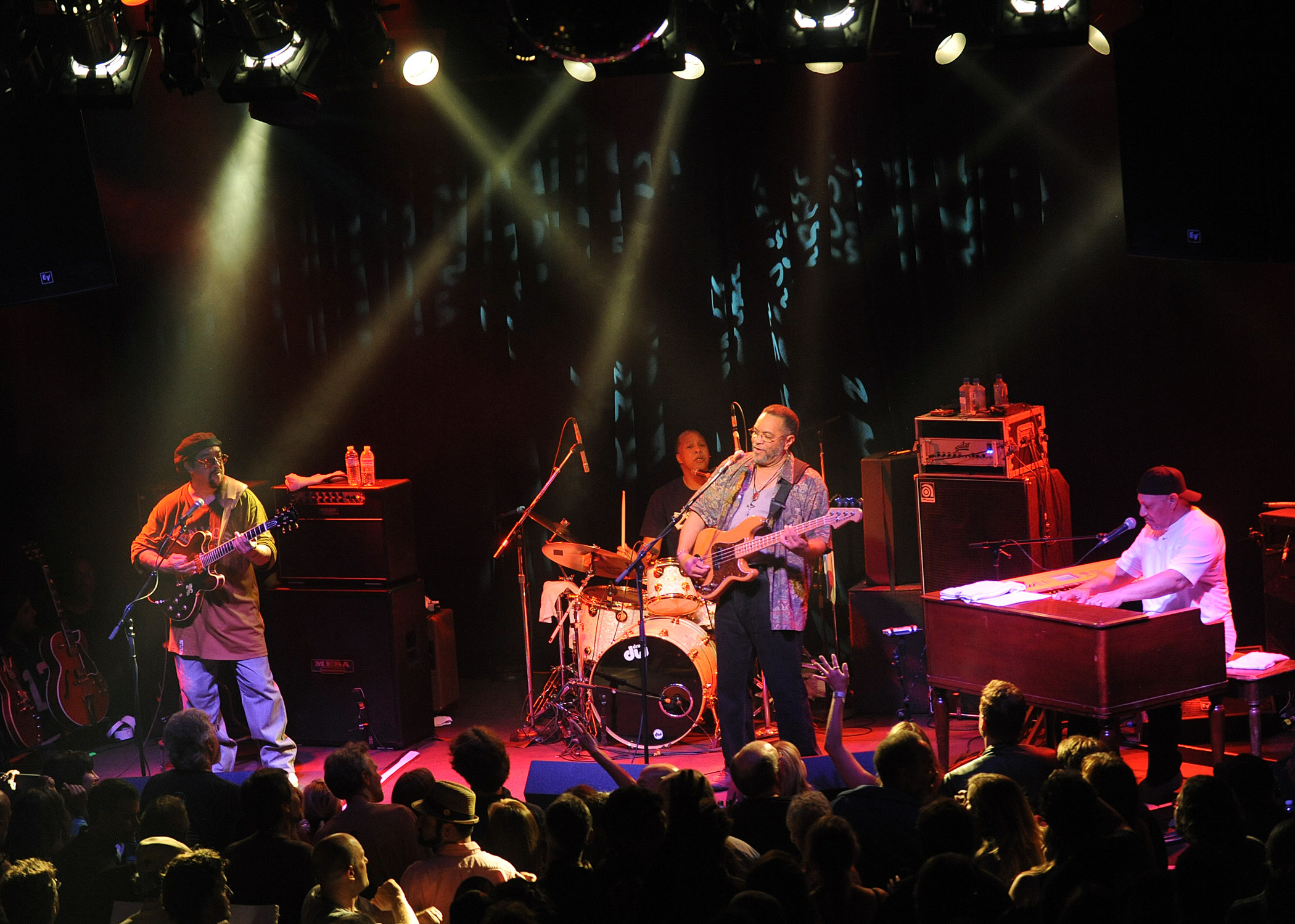 The Meters performing. Left to right: Leo Nocentelli, Ziggy Modeliste, George Porter, Jr., Art Neville